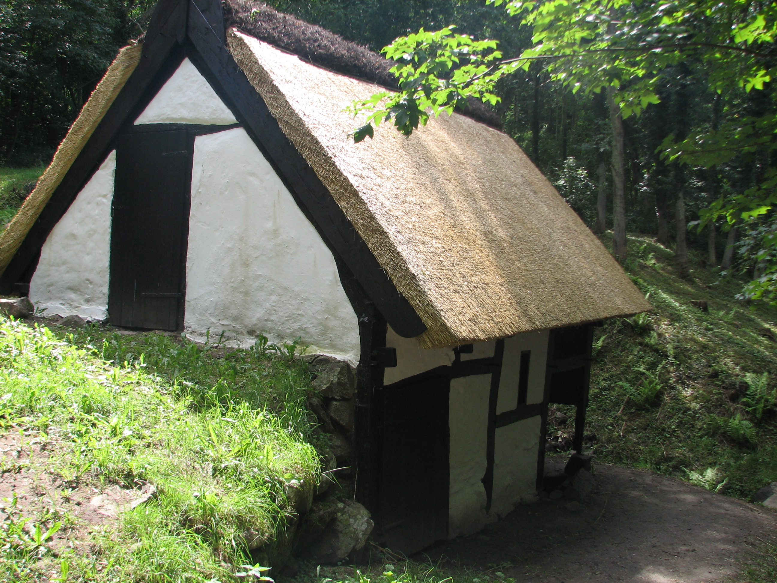 Watermill in Vang on the island of Bornholm.